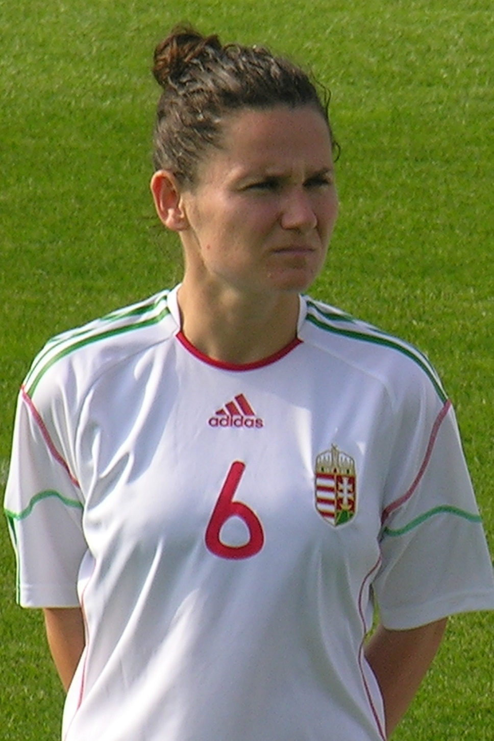 Angéla Smuczer Hungarian international football player. Hungary-Ukraine 0-4.